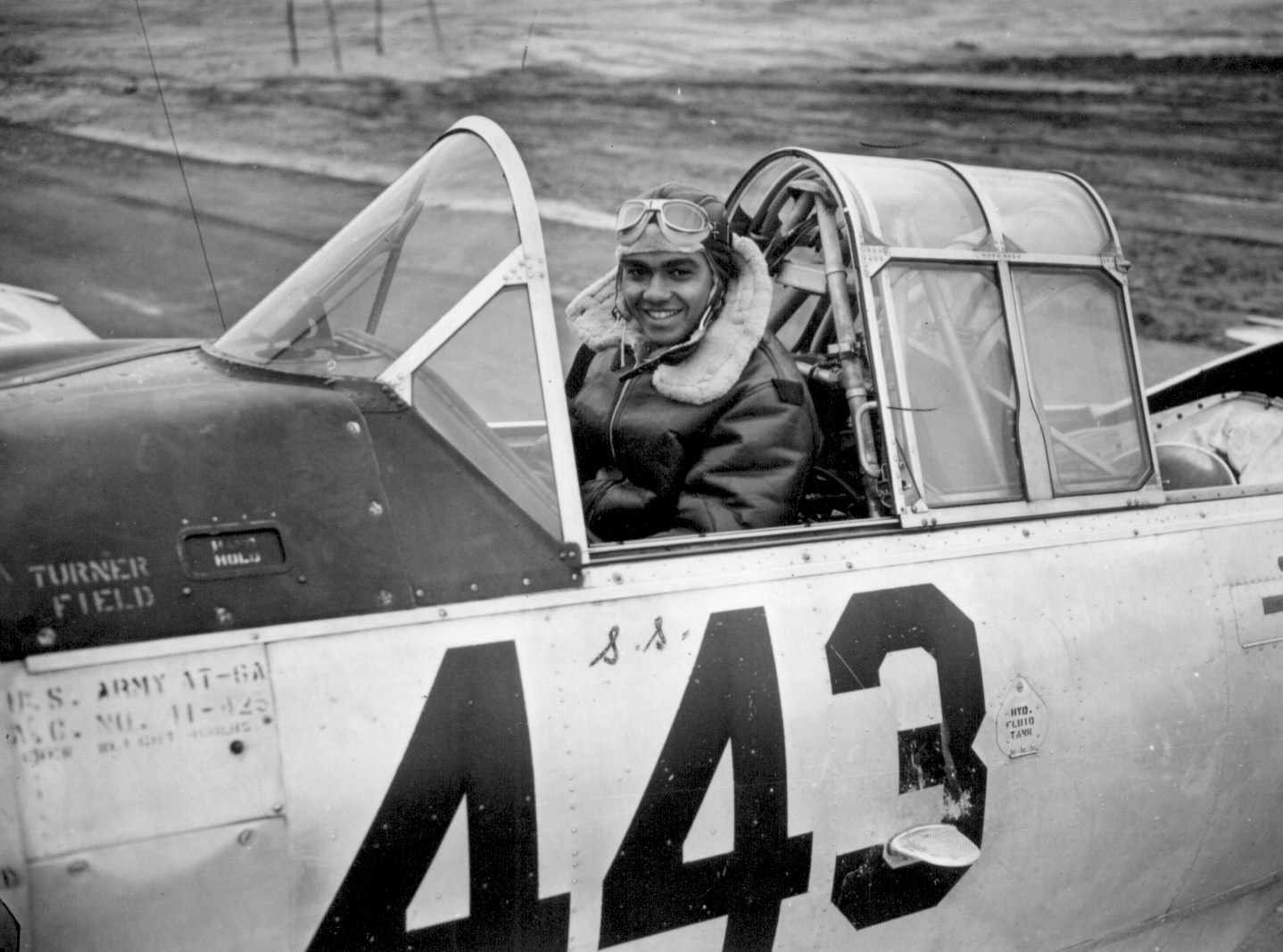 from NARA :"1st Lt. Lee Rayford...who has returned to the United States from Italy where he served with the 99th Fighter Squadron. The nature of his assignment here has not been announced. Other pilots formerly assigned to the 99th now back in America include 1st Lts. Walter I. Lawson, Charles W. Dryden, Graham Smith and Louis R. Purnell." N.d. 208-NP-6EEE-1.